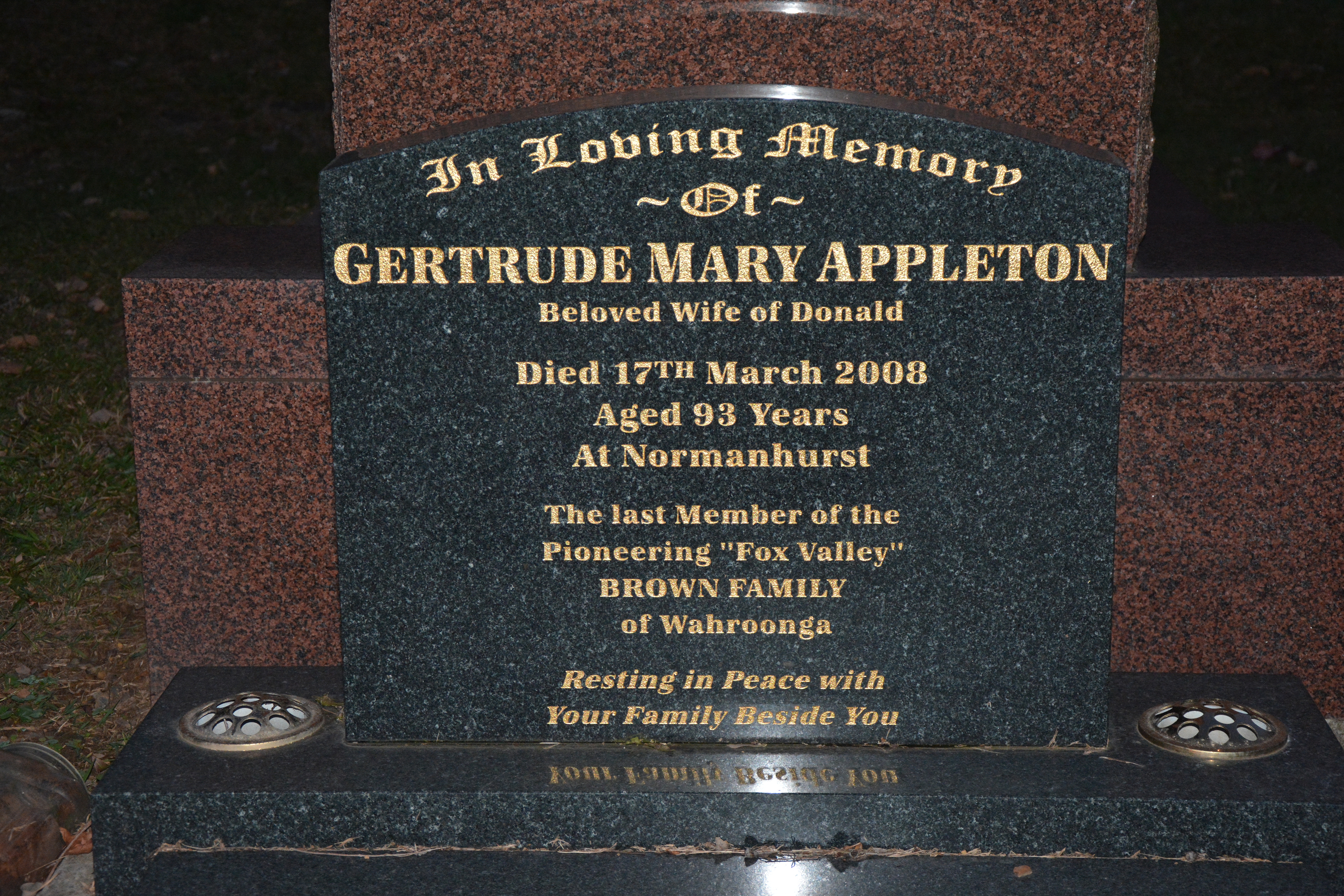 Grave of Gertrude Mary Appleton, last member of the Brown family who developed the Fox Valley-Wahroonga area, cemetery of St John the Baptist Church, Gordon, Sydney